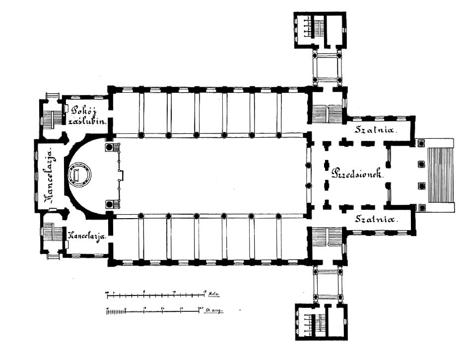 Great Synagogue in Warsaw, plan of the ground floor.